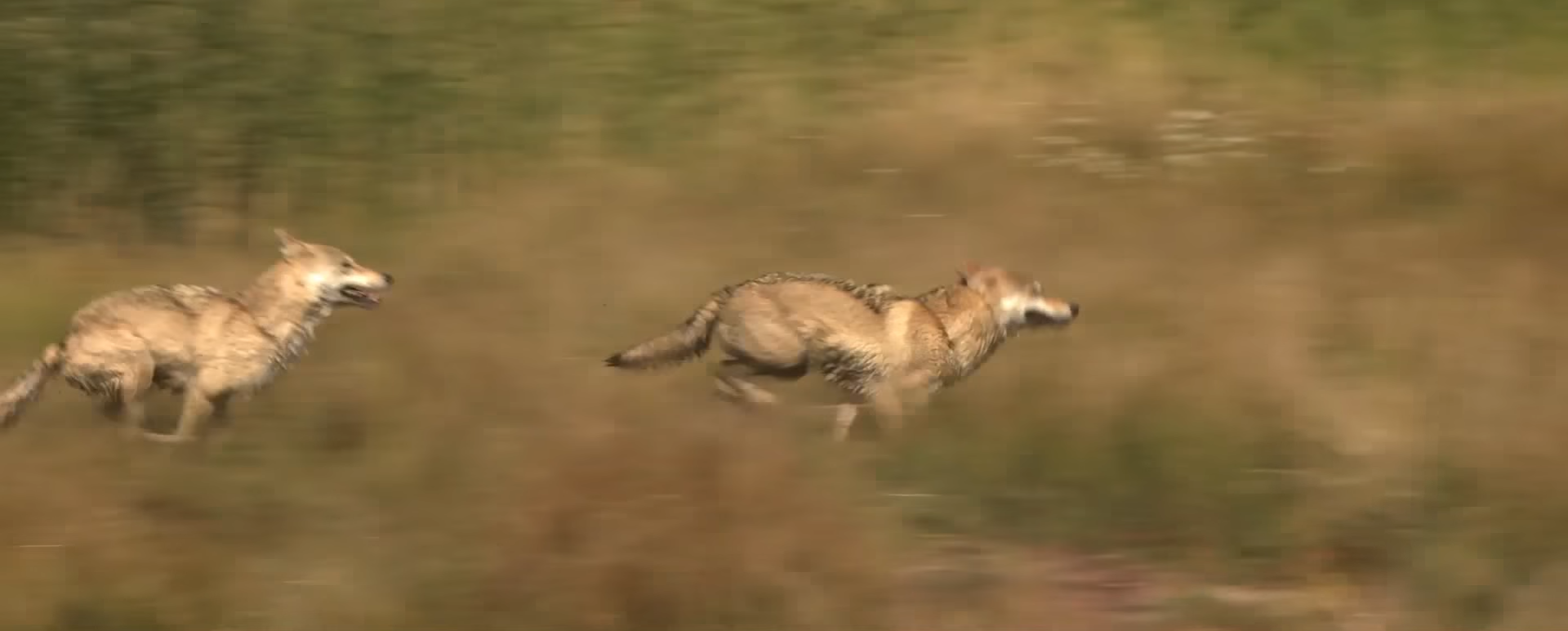 Screenshot of behind the scenes promotional video of Wolf Totem